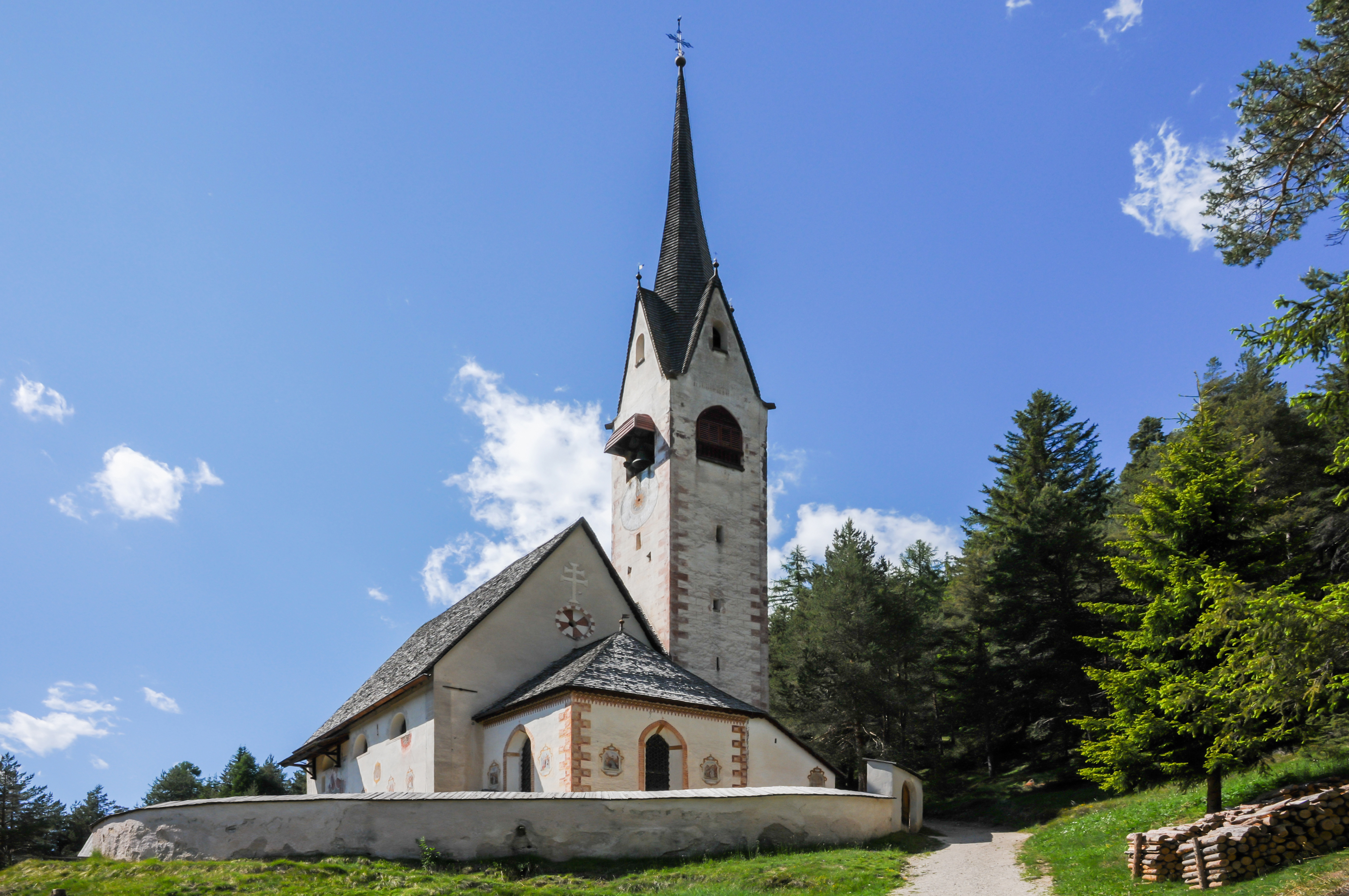 The antique St. Jacob church inUrtijëi,in Val Gardena.